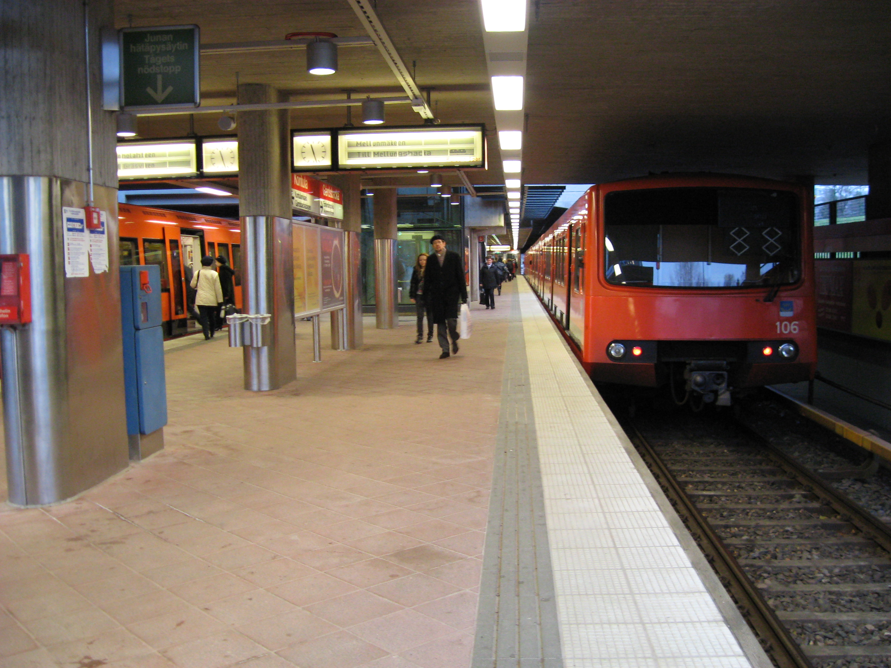 Kontula metro station, Helsinki, Finland